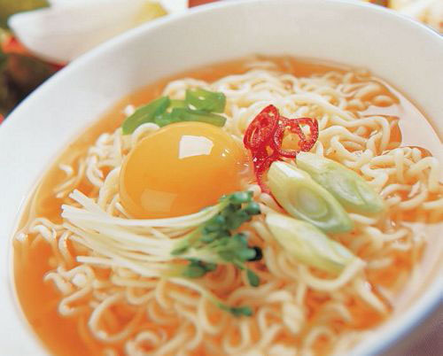 Korean spicy noodle